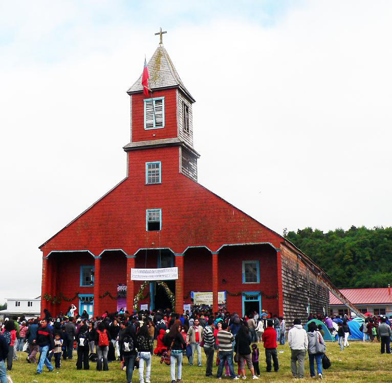 Caguach's Church at Chiloé Island, Chile. UNESCO World Heritage Site